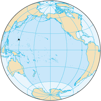 Mariana trench ▲ at map of Pacific ocean